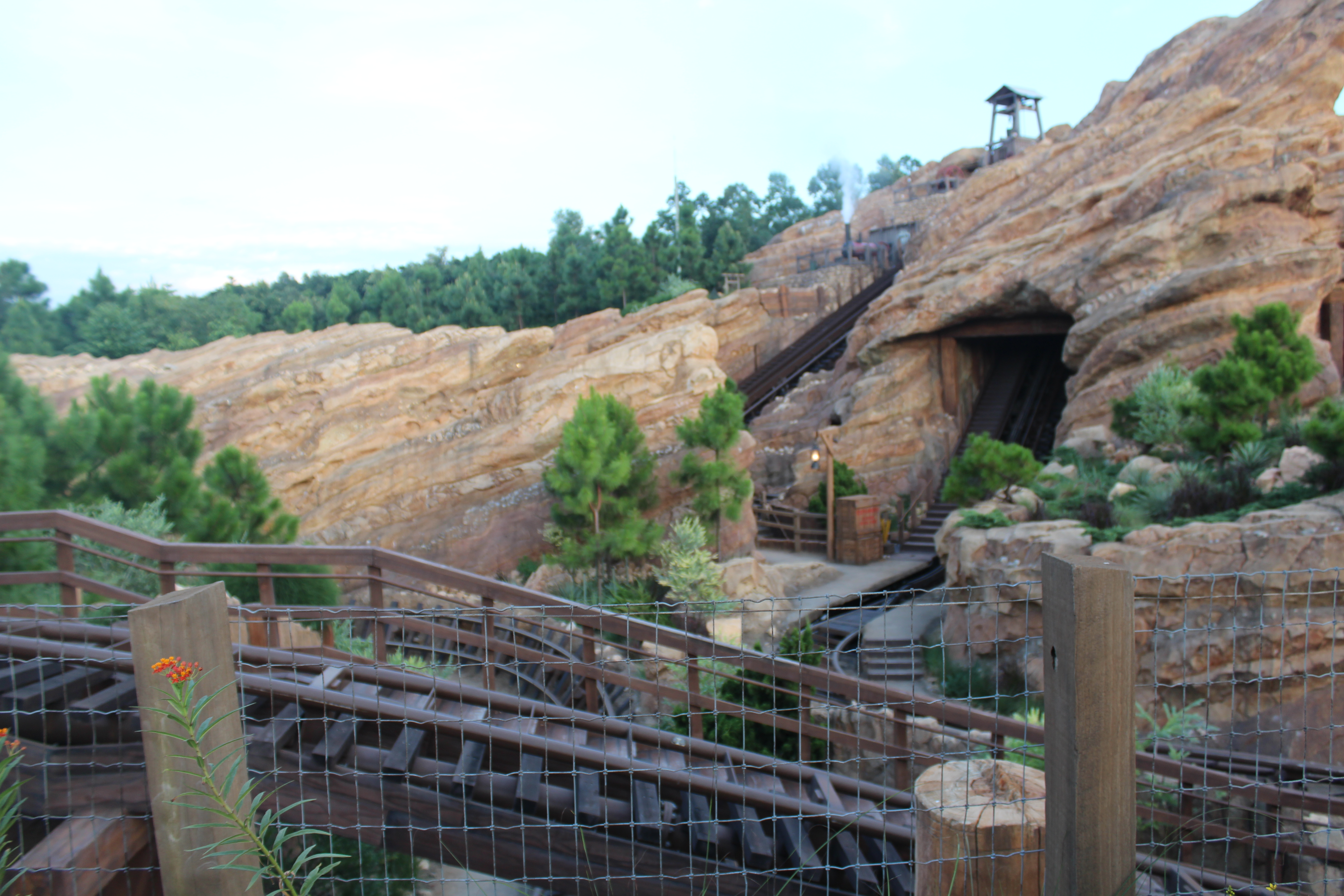 Big Grizzly Mountain Runaway Mine Cars, Grizzly Gulch at Hong Kong Disneyland, Hong Kong